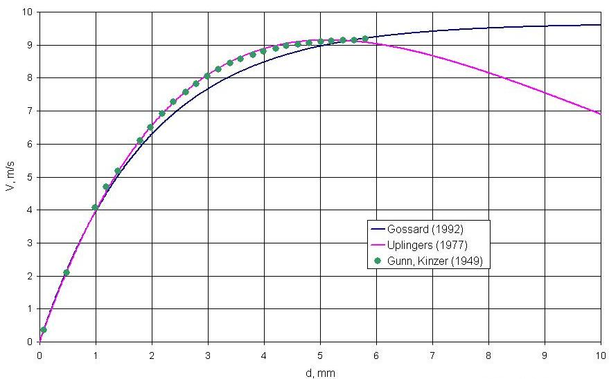 Rain drop terminal velocity chart